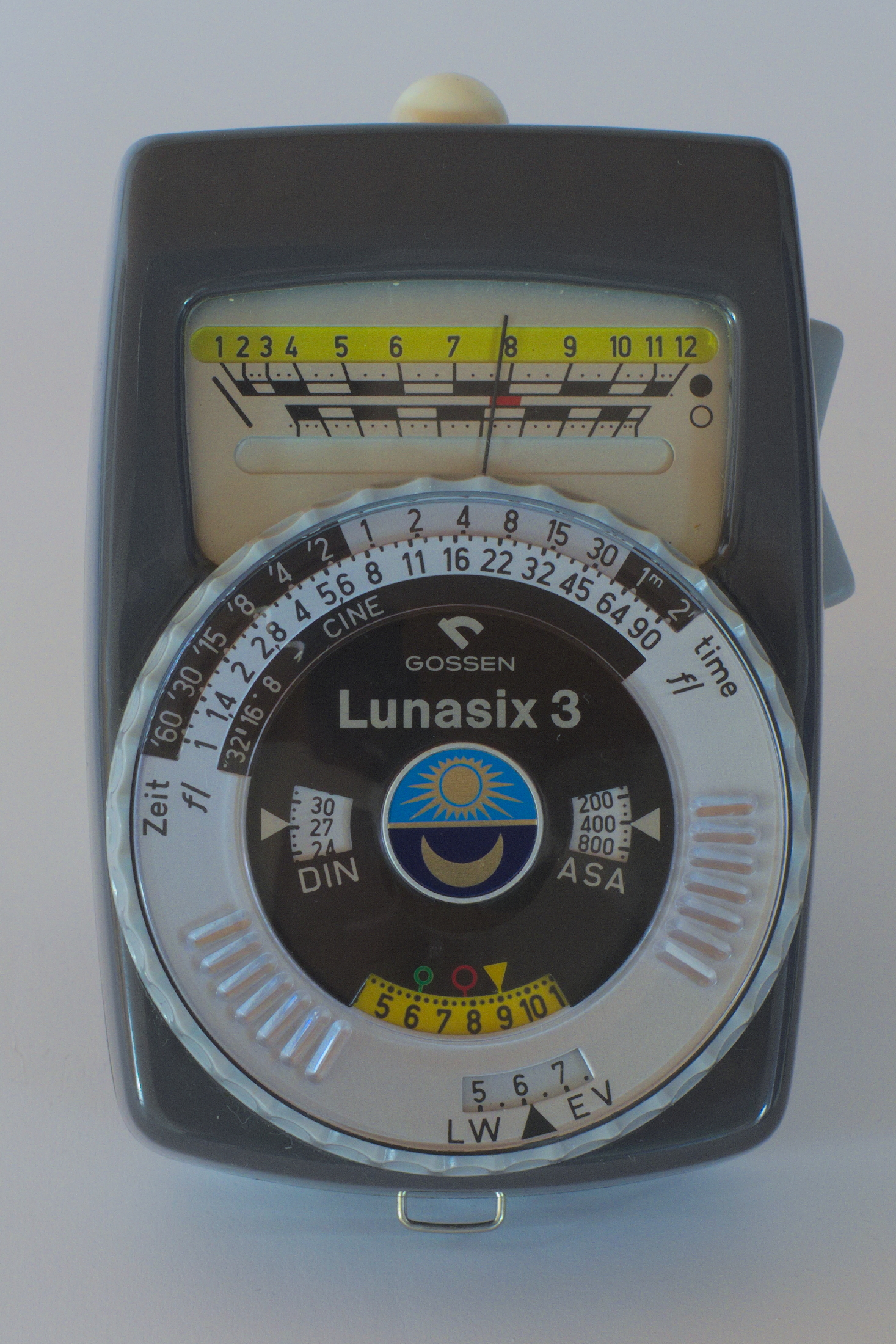 Front side of a Gossen Lunasix 3 light meter